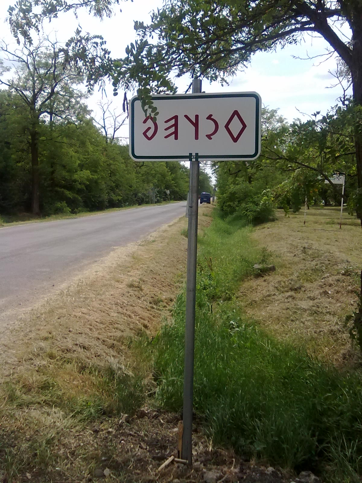 City limit table in Ketpo, Hungary. Traditional Hungarian letters (rovas)